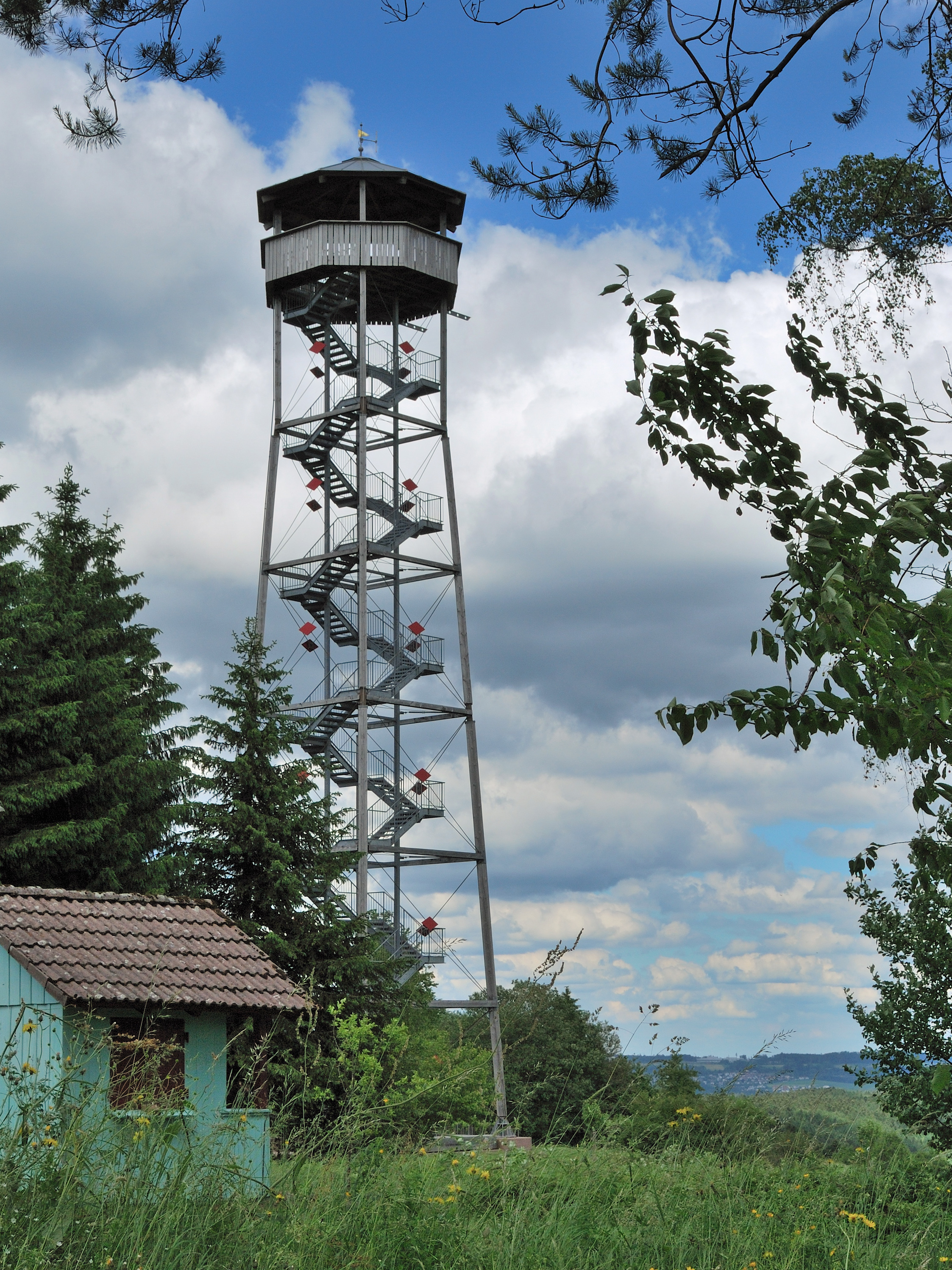 Vogteiturm near Loßburg in the Black Forest in Germany.